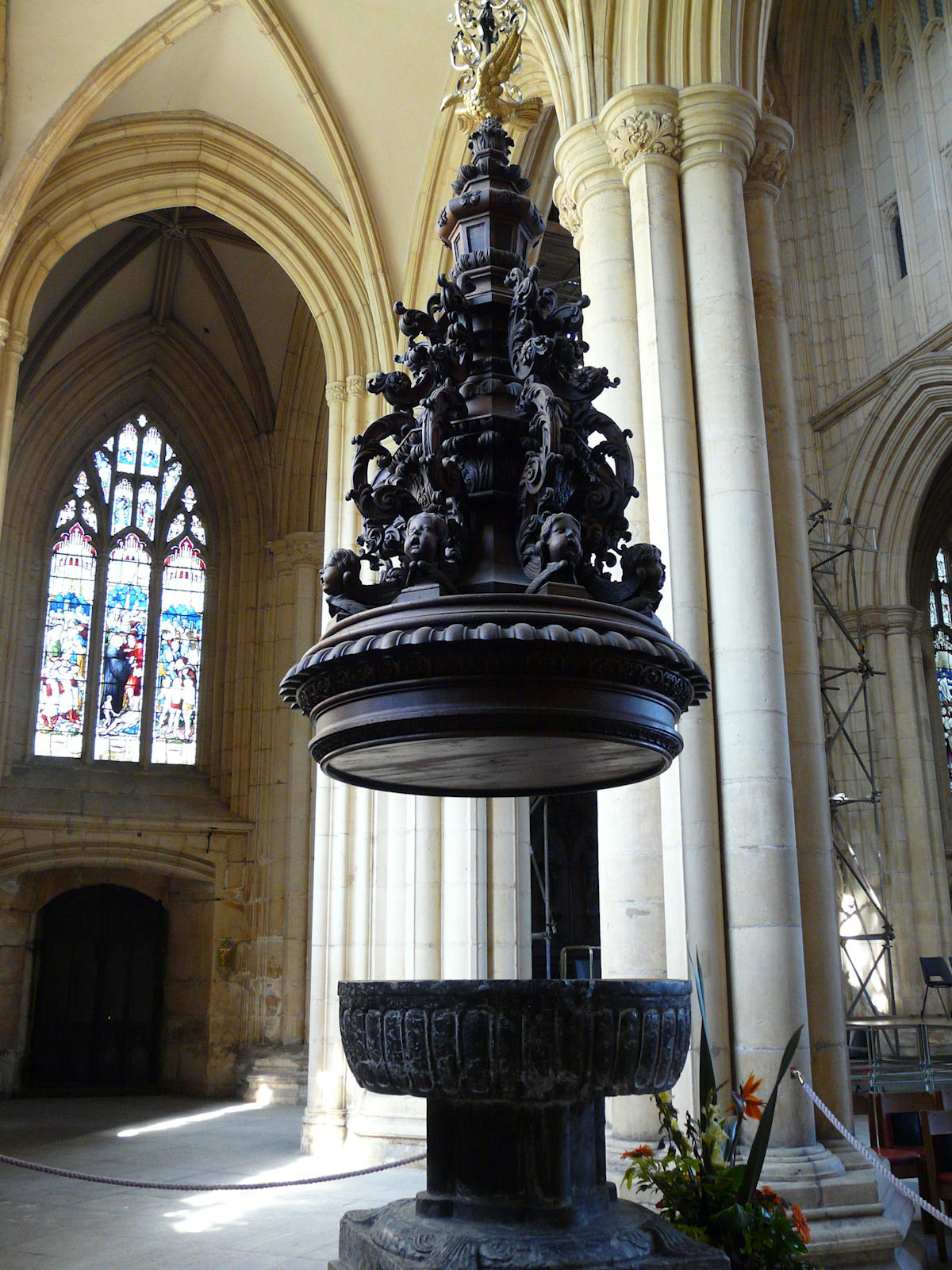 Beverley Minster, Beverley, East Riding of Yorkshire, England.